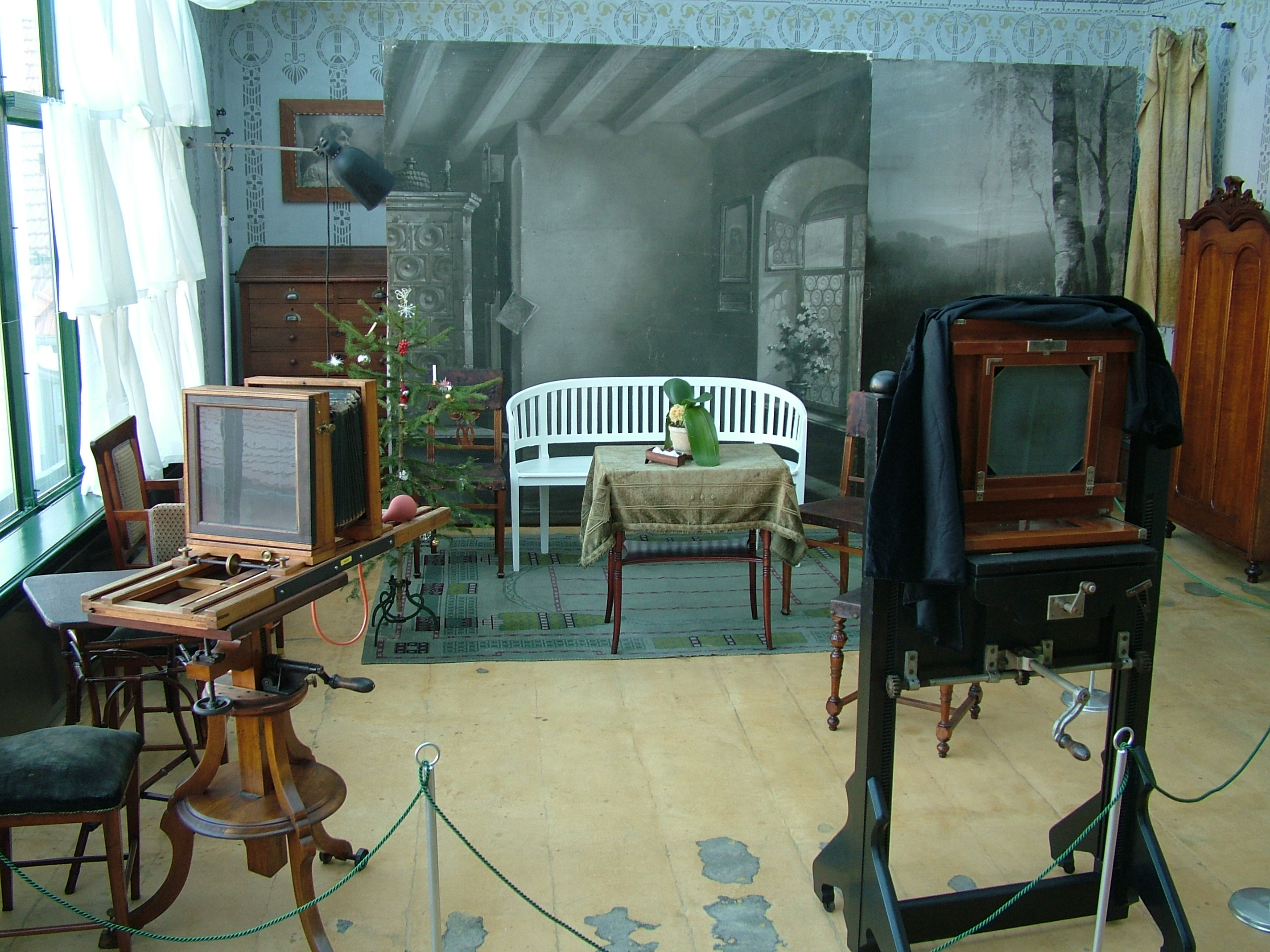 Josef Seidel atelier in Český Krumlov